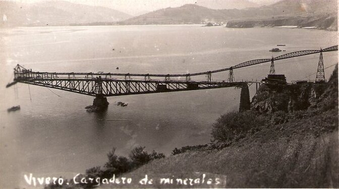 Cargadoiro da Insua da mina da Silvarosa